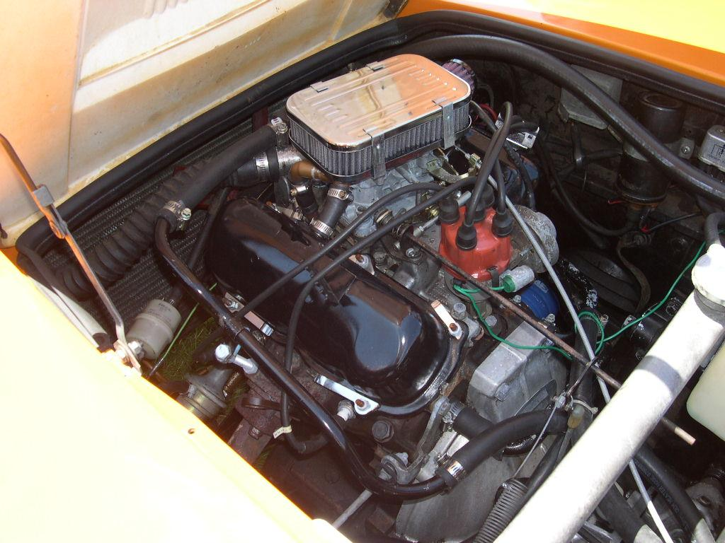 Saab Sonett III with Ford Taunus V4 engine. (The original FOMOCO intake manifold and single barrel carburetor and air filter housing have been replaced with another manifold, a two barrel Weber carburetor and K&N air filter.)